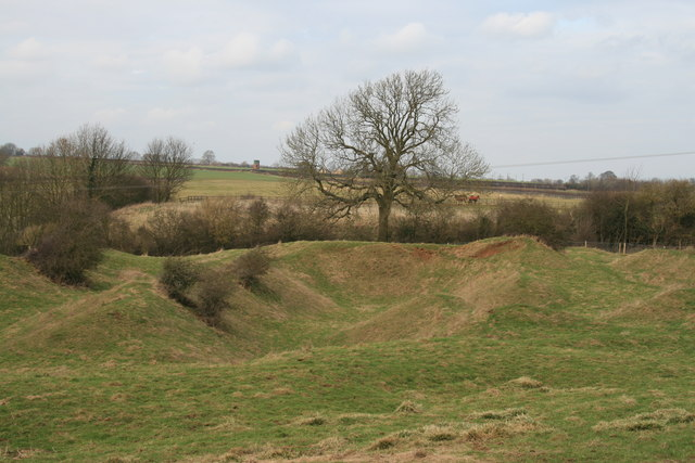 Brown's Hill Quarry Ironstone quarried from the middle ages to the late 1950's has left its mark.